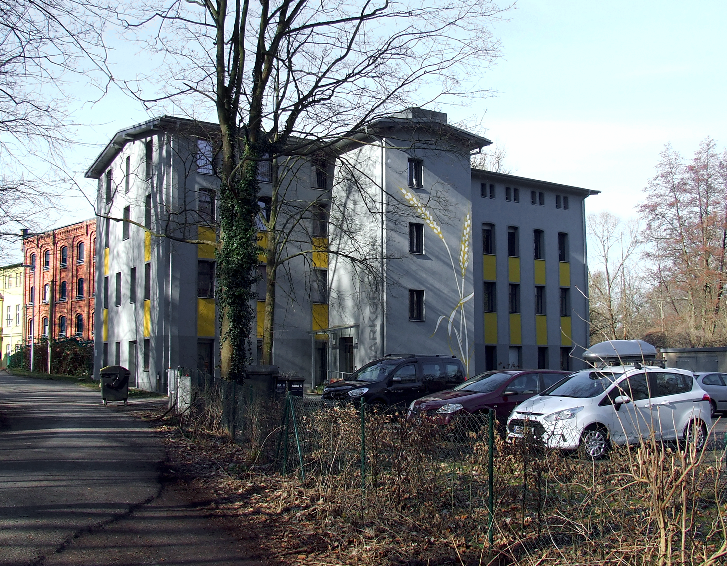 Markgrafenmühle 2, former textile factory. This view is from the east.